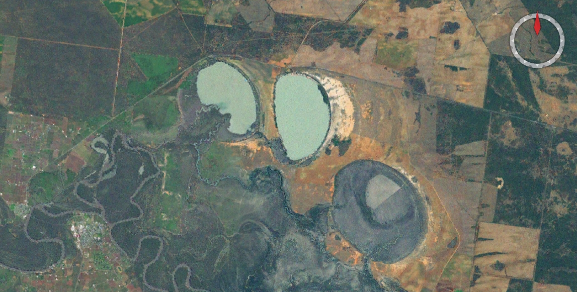 Euston lakes in Australia